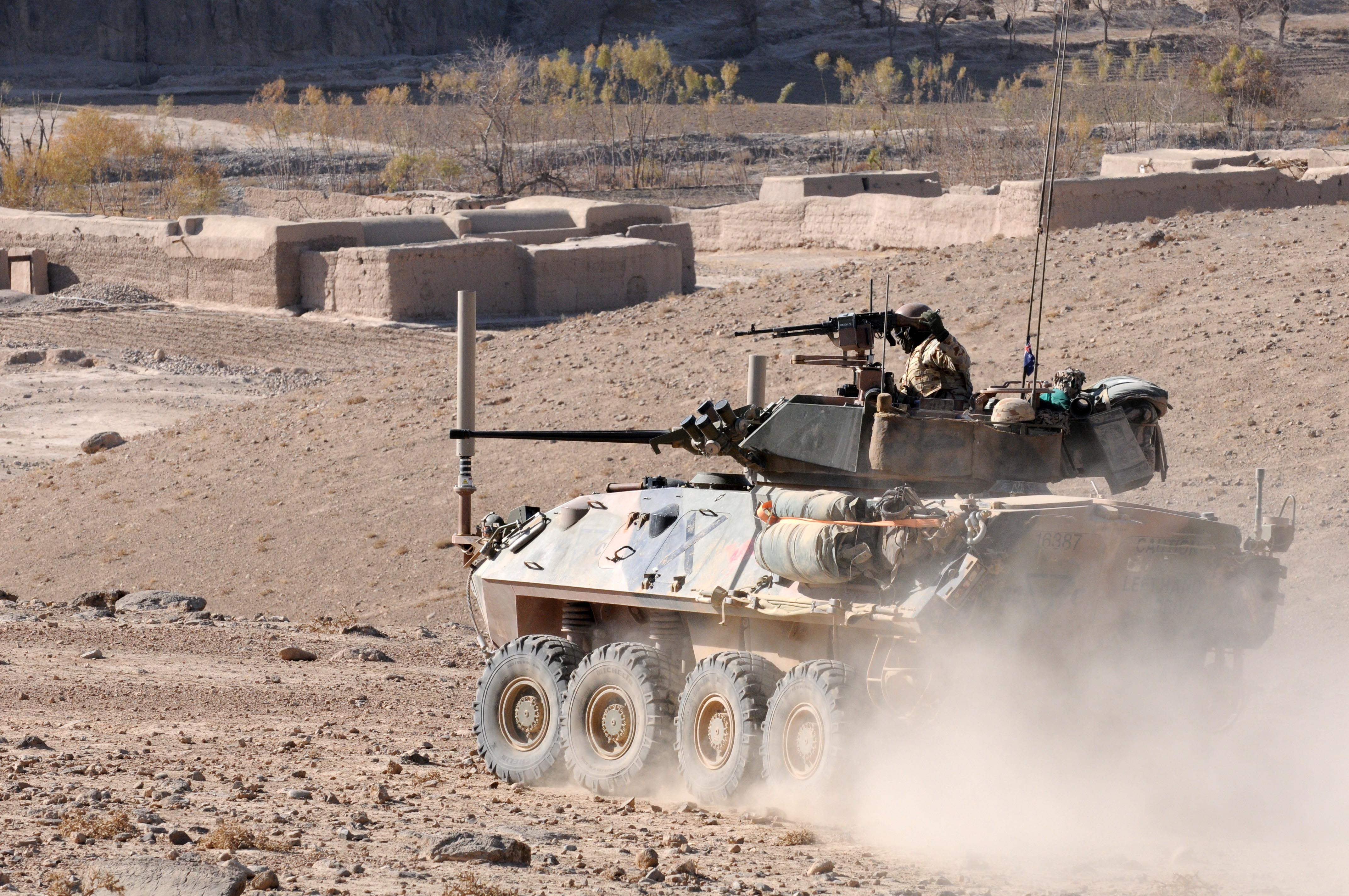 TANGI VALLEY, Afghanistan – An Australian Light Armored Vehicle angles itself into a defensive position to provide security for ground troops. Afghan National Army and Australian soldiers took control of the hill while the armored vehicles cleared the road leading to the hill, the future site for a new forward operating base in the Tangi Valley, Dec. 28, 2010.